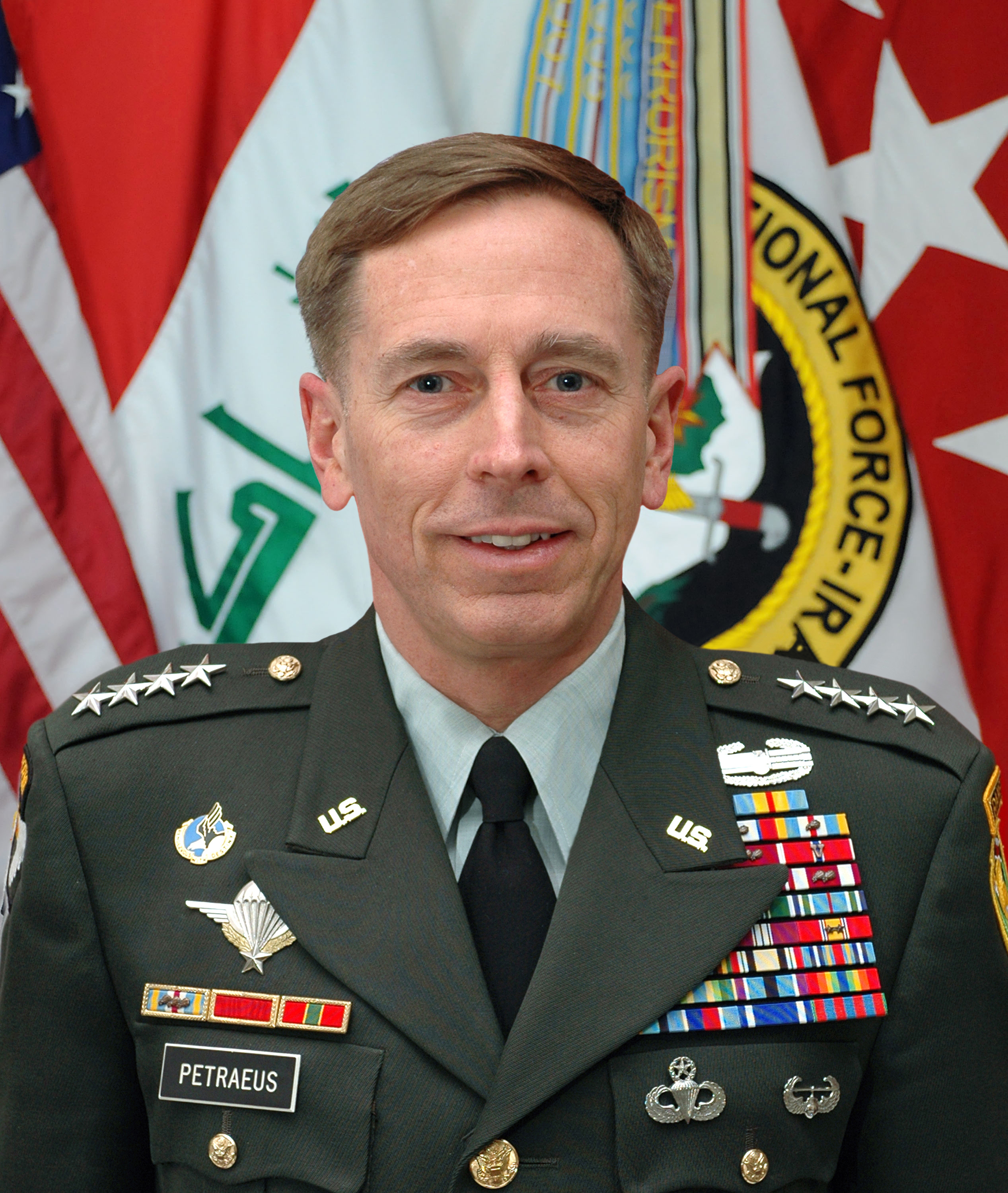 General David H. Petraeus, US Army, Commander, U.S. Central Command.